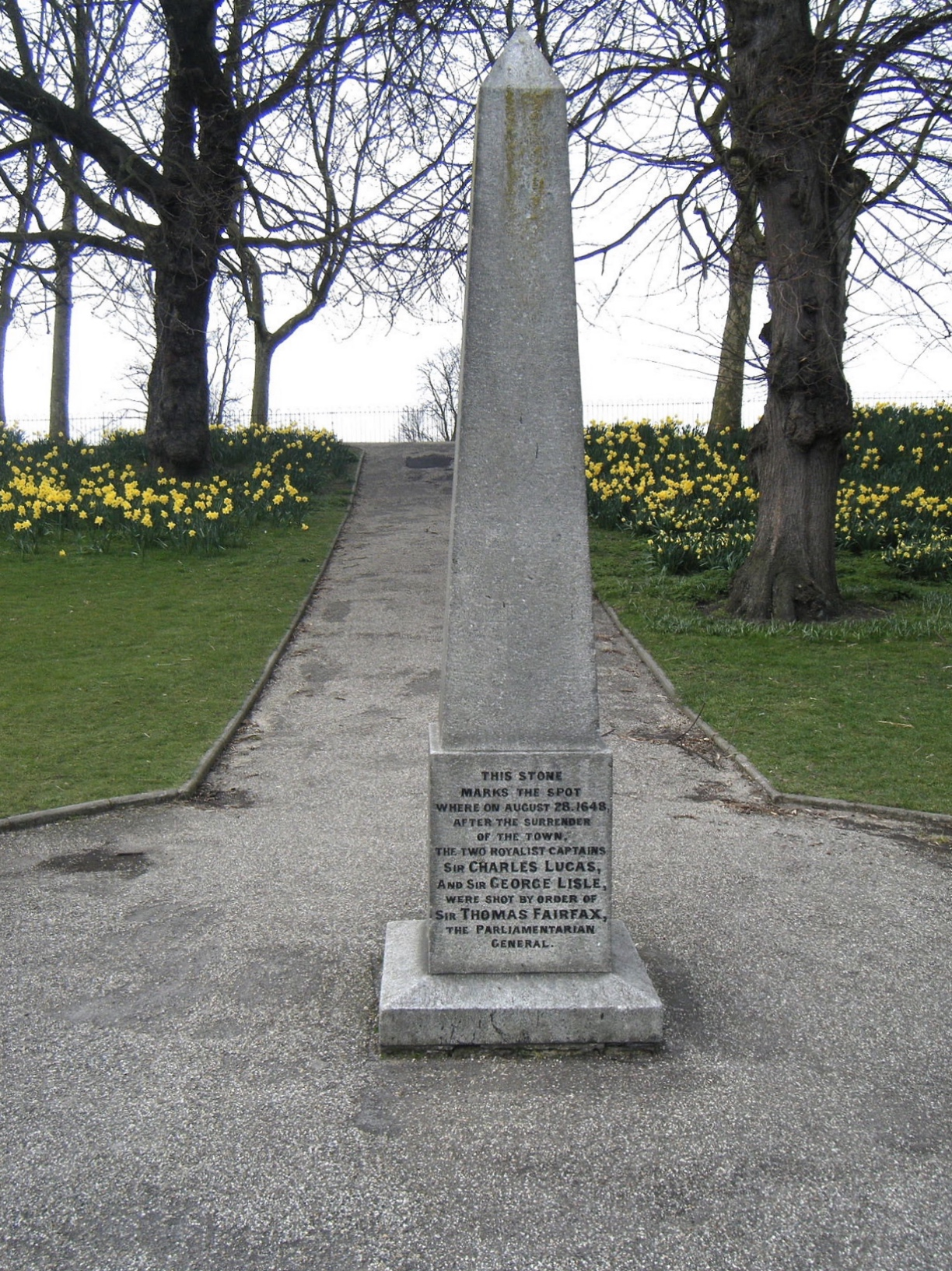 Monument, to rear of Colchester Castle, to Sir Charles Lucas and Sir George Lisle. Inscription (readable on enlargement of image): "This stone marks the spot where on August 28.1648, after the surrender of the town, the two Royalist Captains Sir Charles Lucas and Sir George Lisle, were shot by order of Sir Thomas Fairfax, the Parliamentarian General."